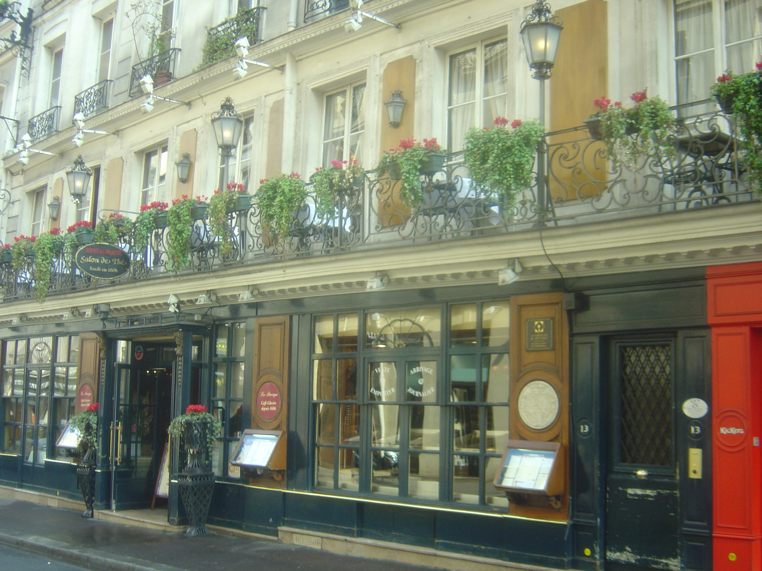 Cafe Le Procope, Paris 2011